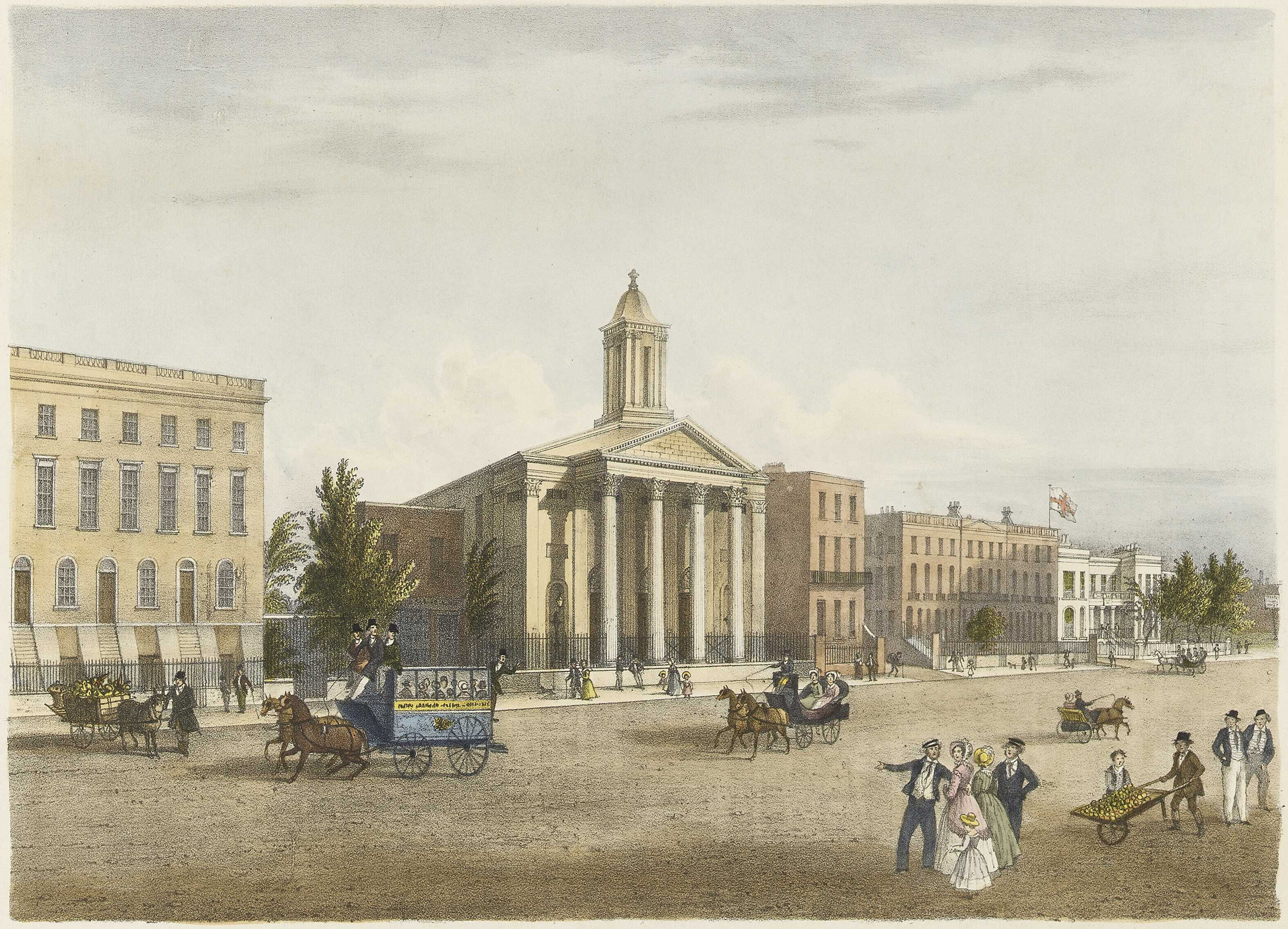 Trinity Chapel, Sailors Home &c., East India Road Poplar Co. of Middlesex Print entitled 'Trinity Chapel, Sailors Home &c., East India Road Poplar Co. of Middlesex'. This is the Chapel and Sailors' Home endowed by George Green, who built the Congregationalist chapel, and his son Richard, (see PAG6590). They were both buried in the chapel. The Green company house flag flies on the Home to the right. Trinity Chapel, Sailors Home &c., East India Road Poplar Co. of Middlesex